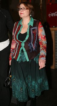 Josiane BALASKO at MAINSTREAM film festival. Original artwork created by the festival organisator, VadimAbramov. link